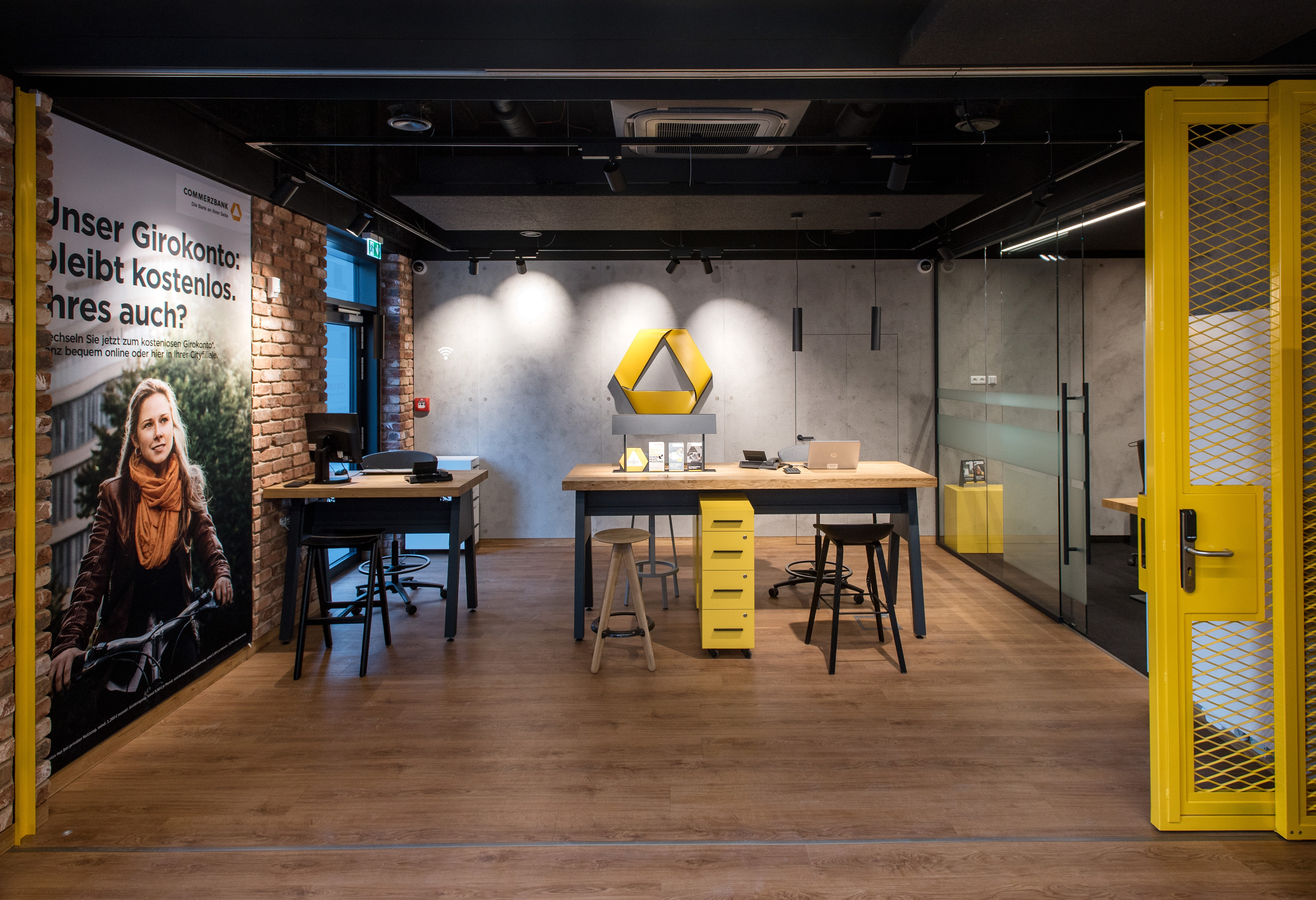 City branch of the Commerzbank in Frankfurt